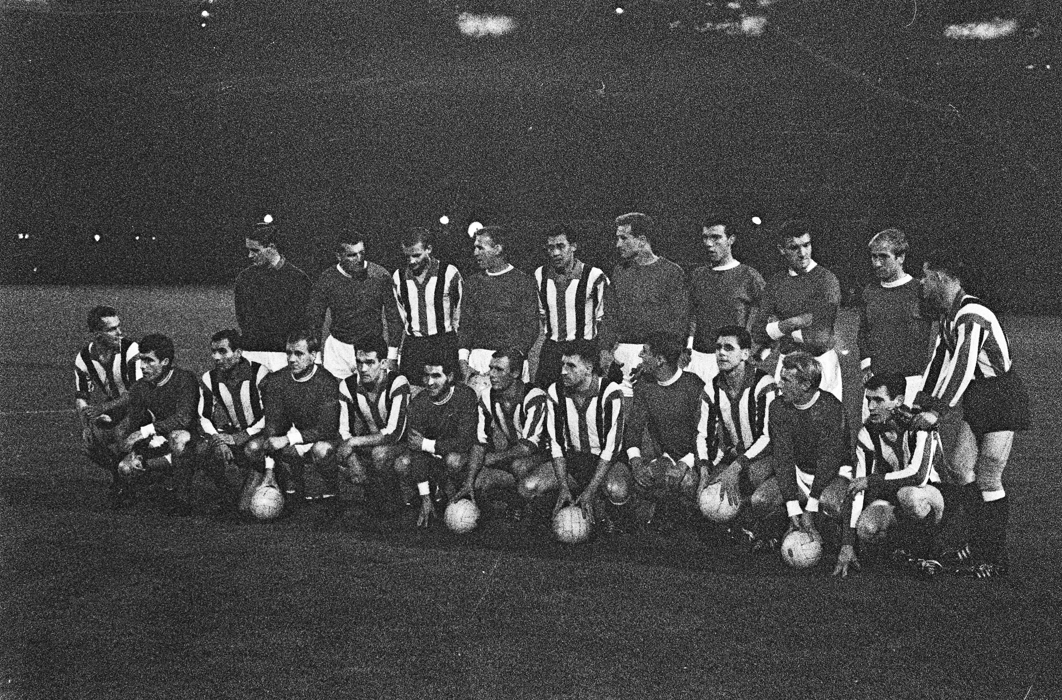 Teams of Willem II Tilburg & Manchester United, together. 25 Sept. 1963 in De Kuip (Rotterdam). First leg, 1-1